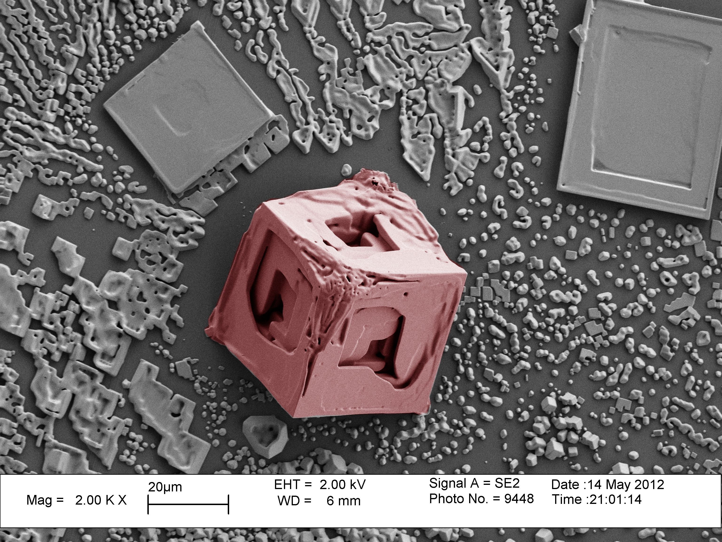 KBr salt cube